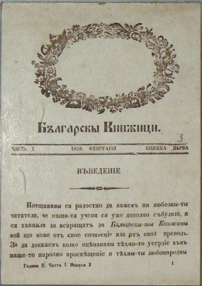 Issue of journal "Bulgarski knizhitsi", February 1859. Exhibited in Ivan Vazov's House-museum in Berkovitsa, Bulgaria